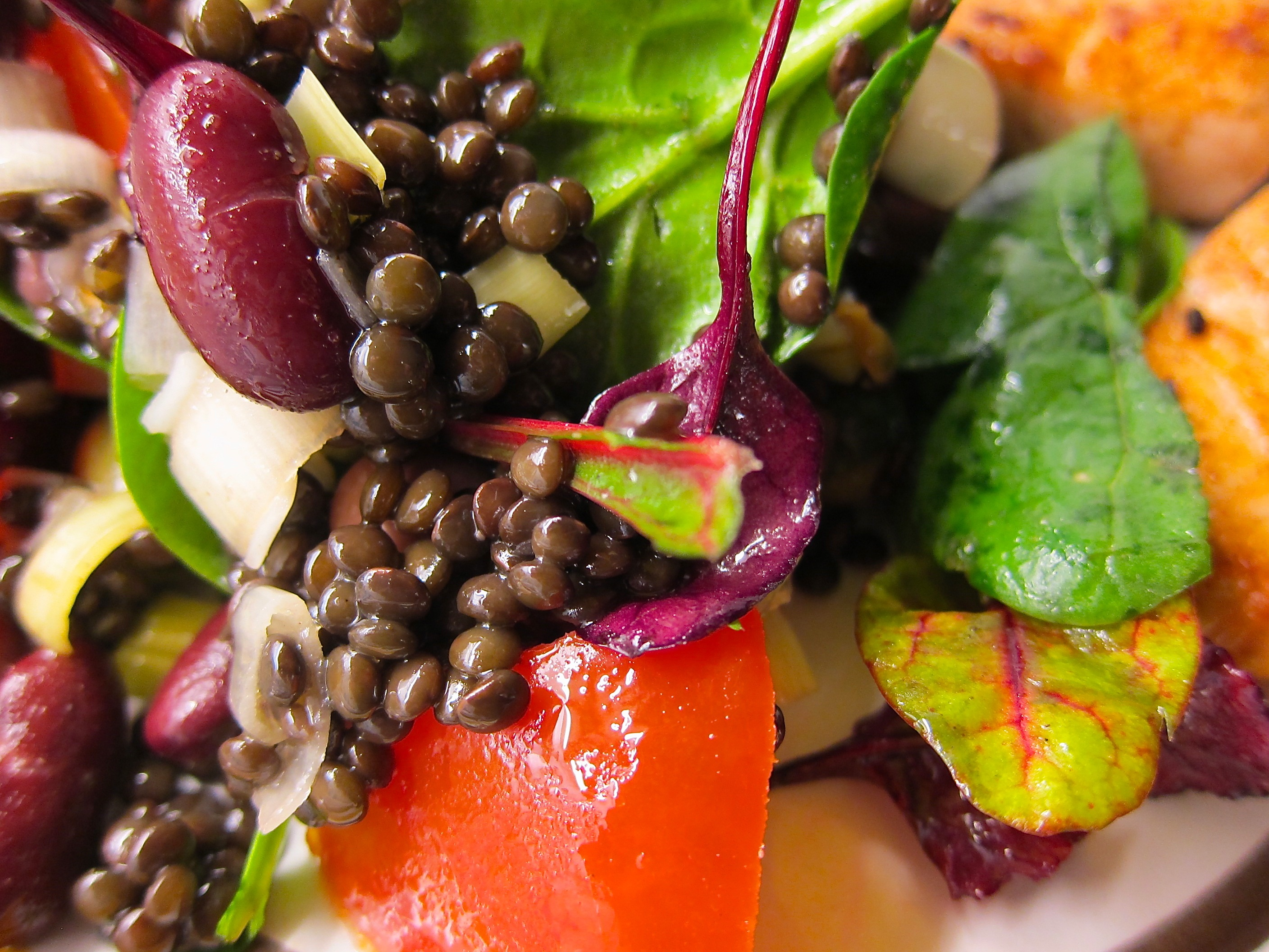 Lentils in salad